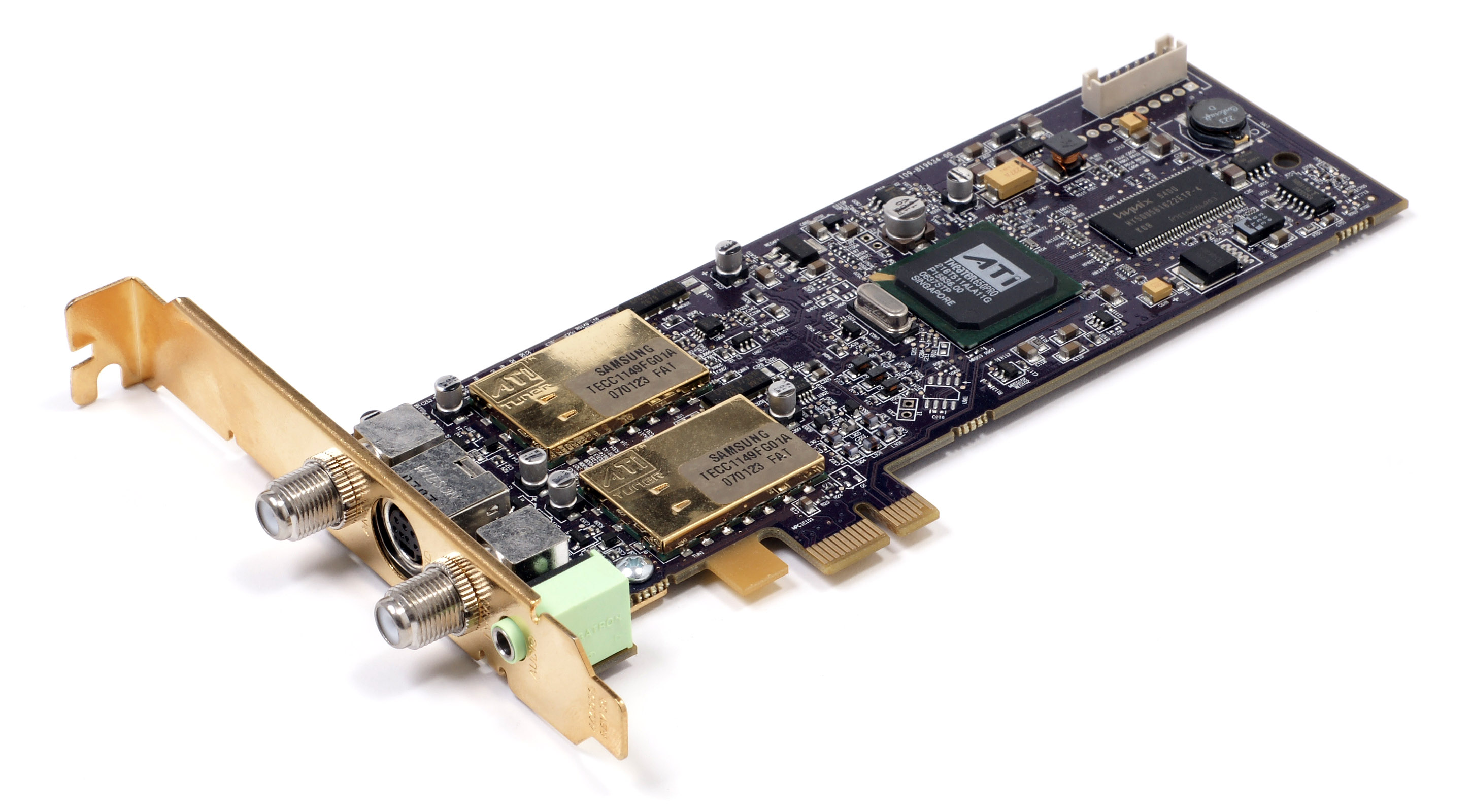 The Diamond ATV TV Wonder HD 650 Dual Tuner for PCs. This allows for two inputs and also can record from its S-Video connection.